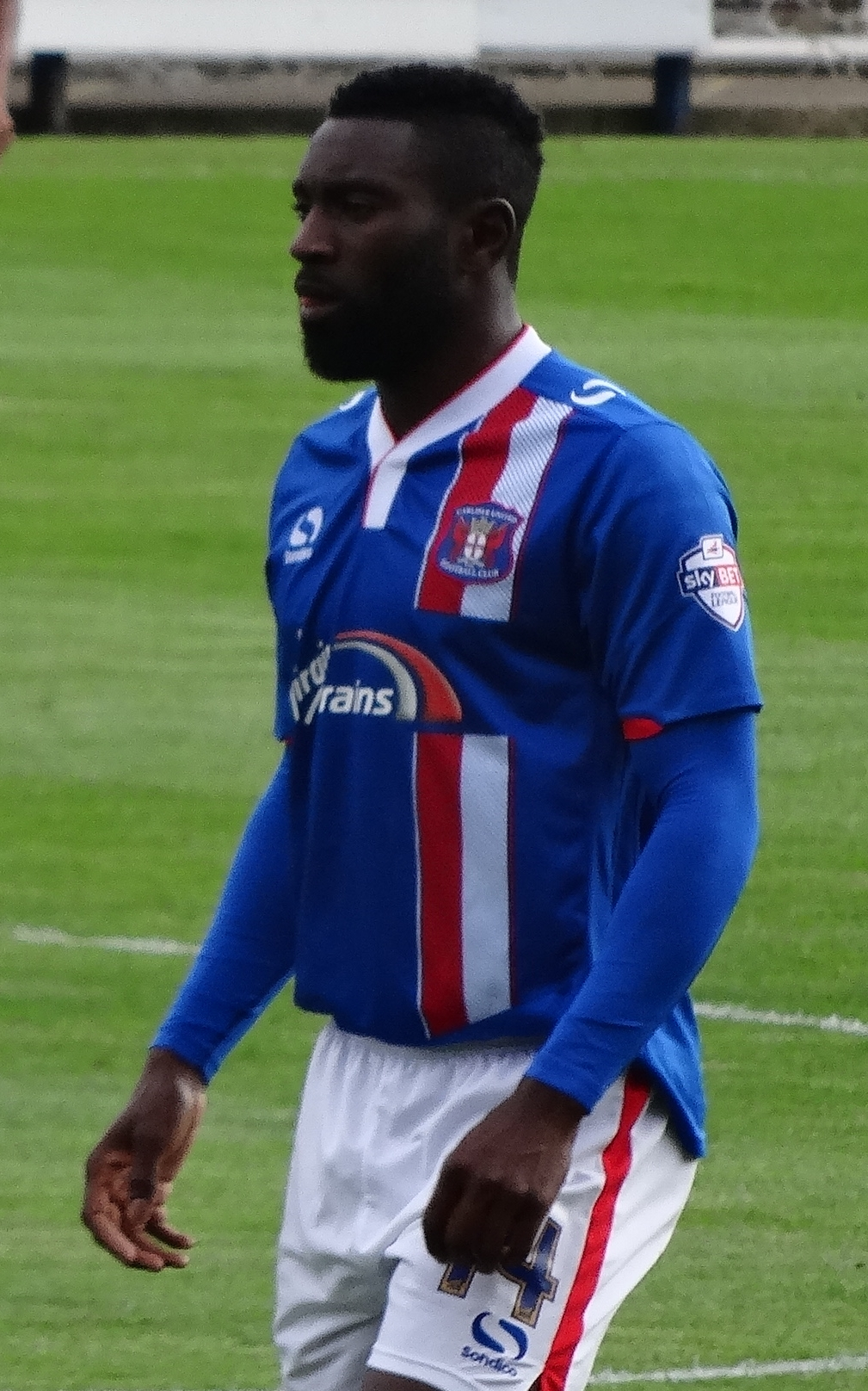 Jabo Ibehre playing for Carlisle United against York City at Bootham Crescent, York on 19 September 2015